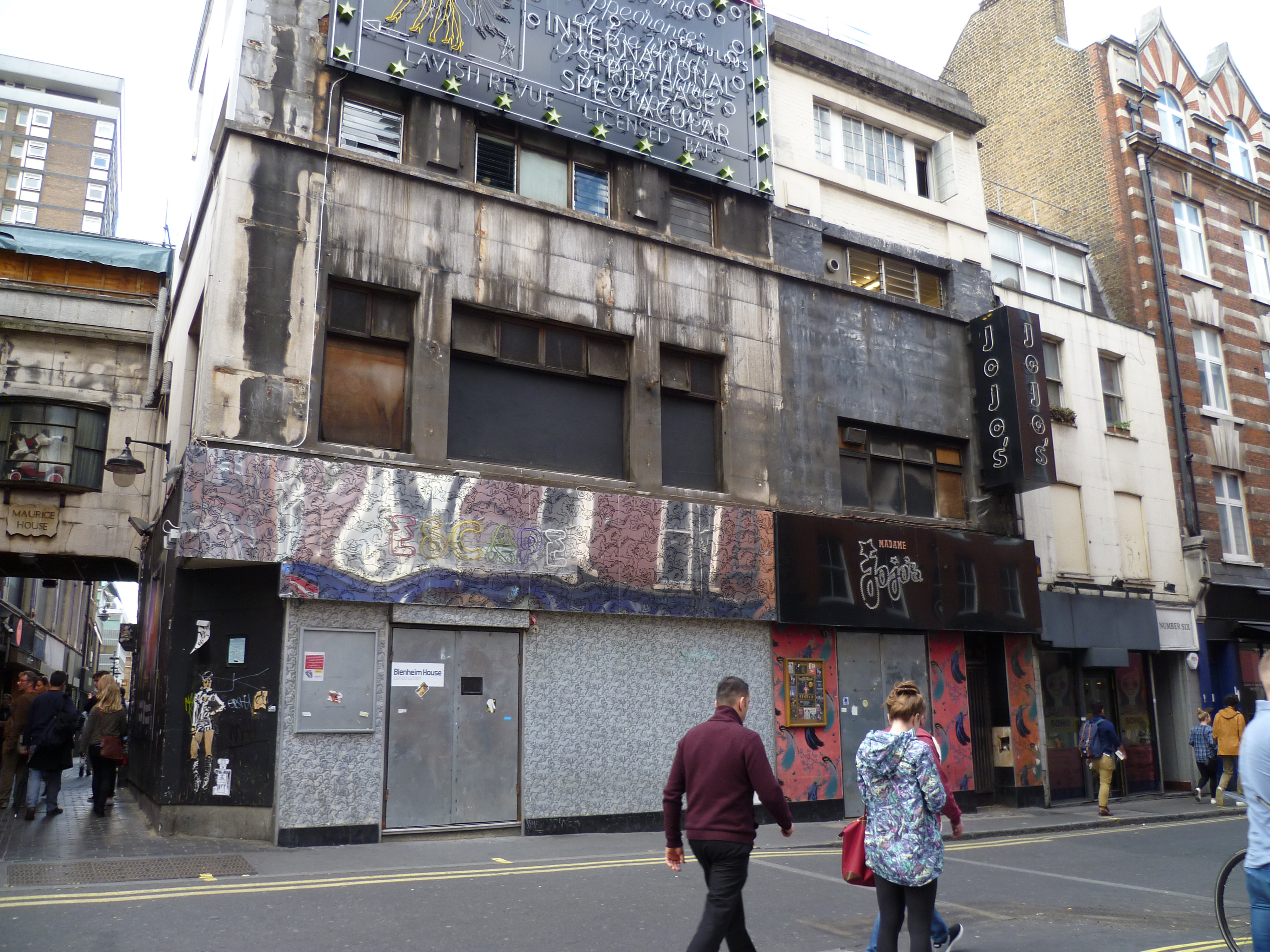 Brewer Street